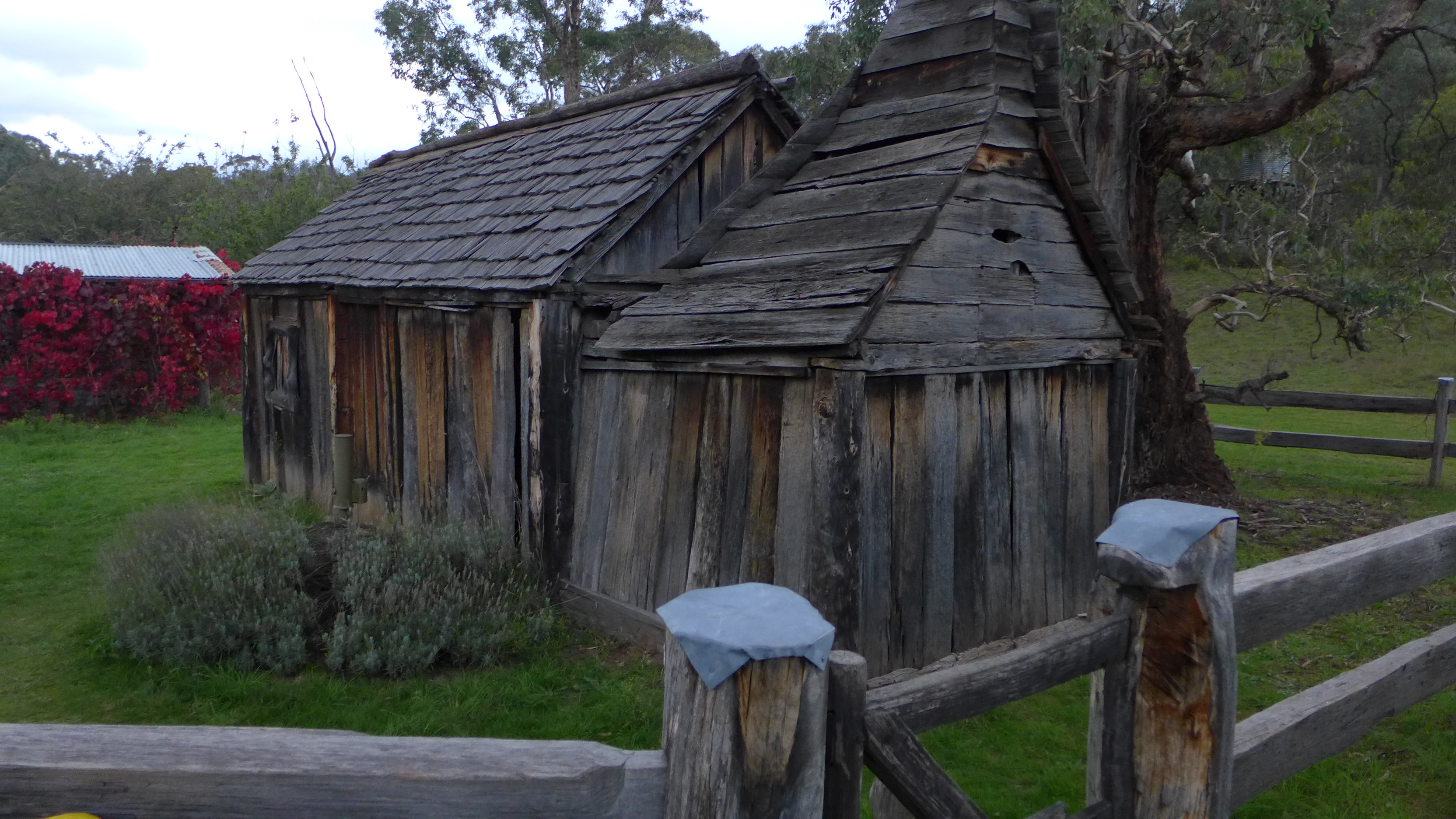 An 1860s schoolhouse in Suggan Buggan, Victoria.